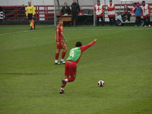 Rodolfo. 2007 Russian cup semifinal (FC Lokomotiv Moscow v.s. FC Spartak Moscow)